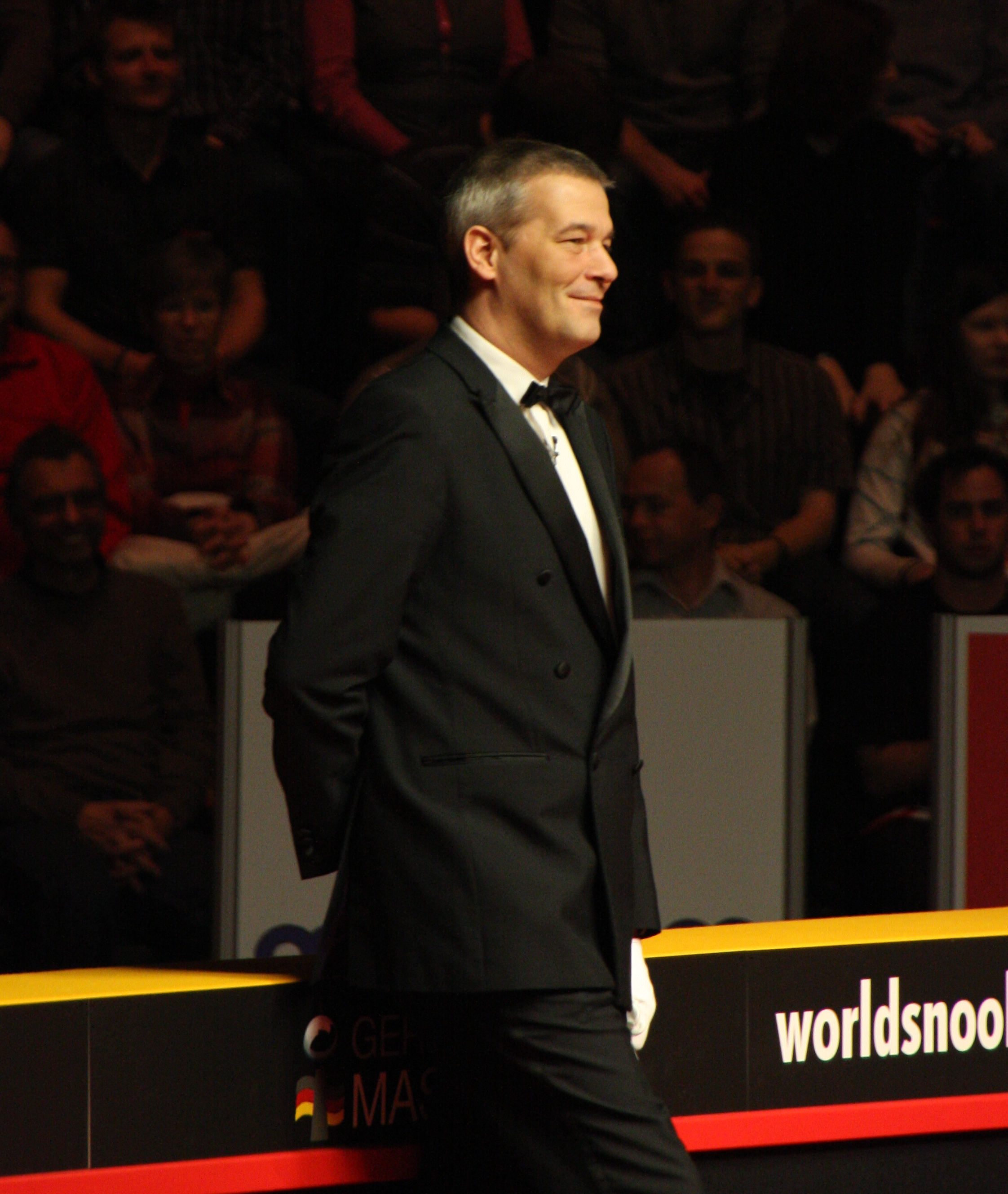 Snooker referee Jan Verhaas at the en:2011 German Masters